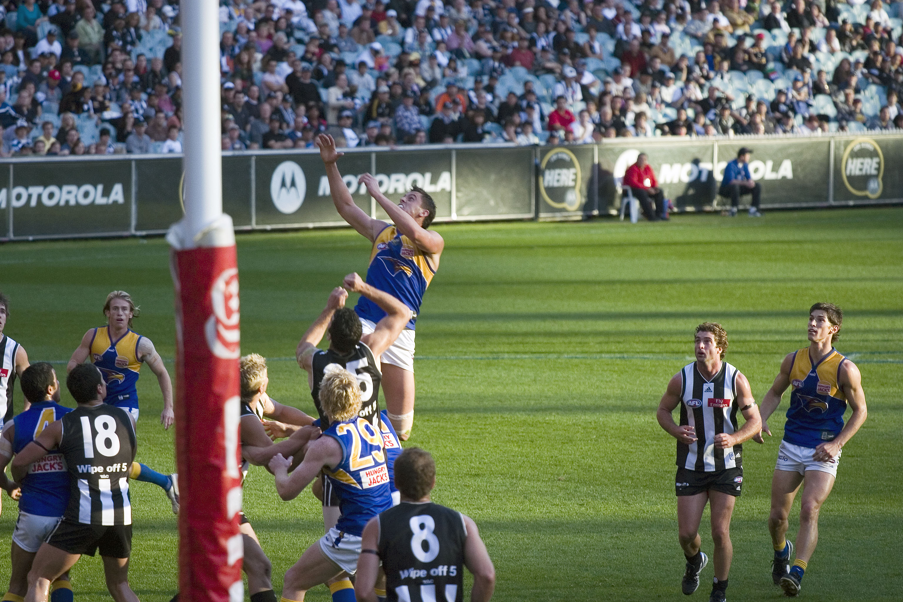 Michael Gardiner wins another ruck contest.